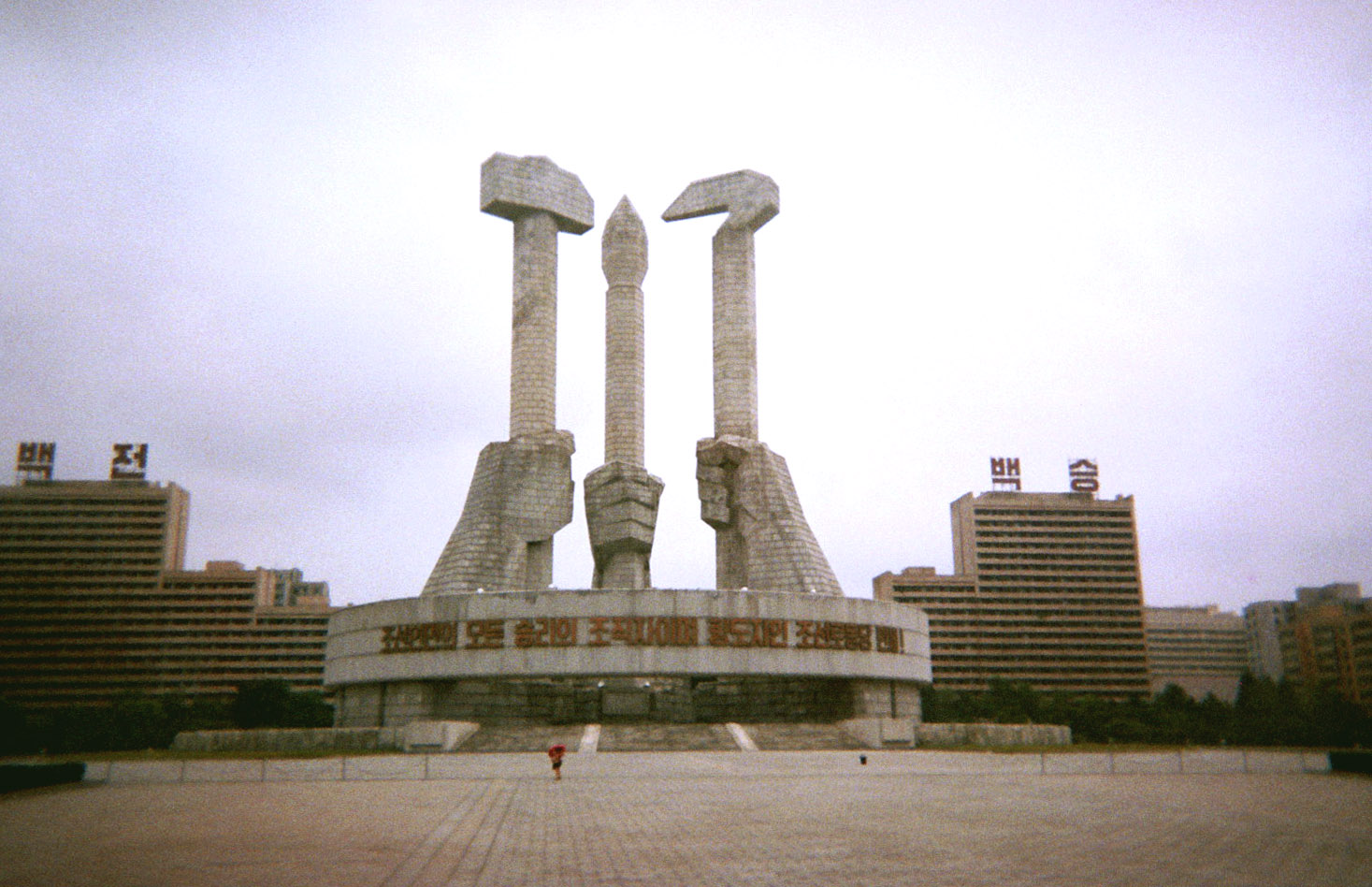 Monument, Workers' Party of Korea